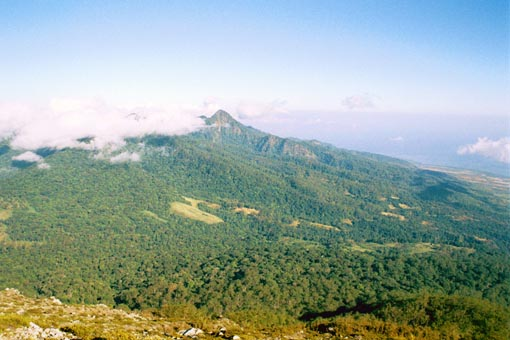 Near Wodong and Gunung, a landscape.